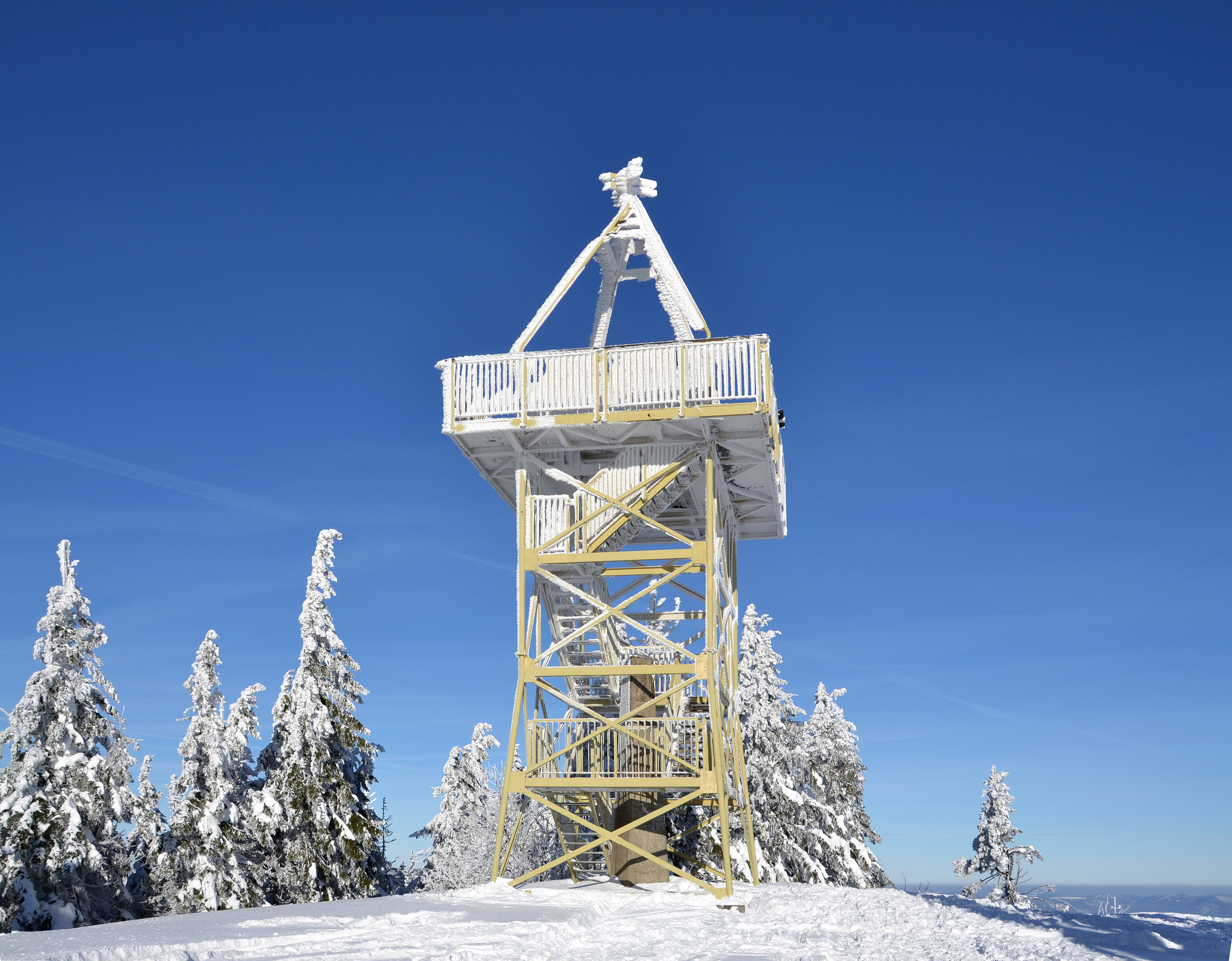 Barania Góra, Silesia, Beskid Śląski mountains. Observation tower